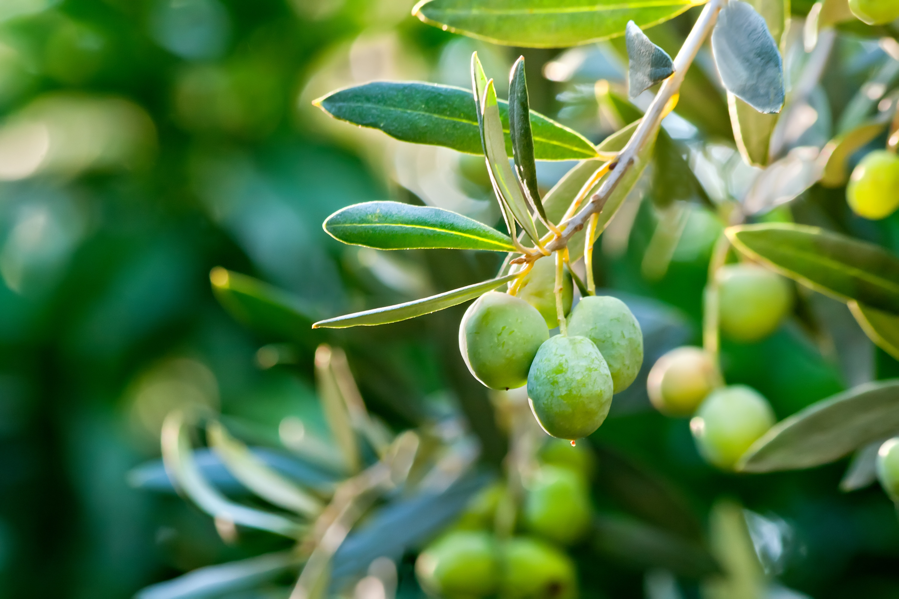 Green olive